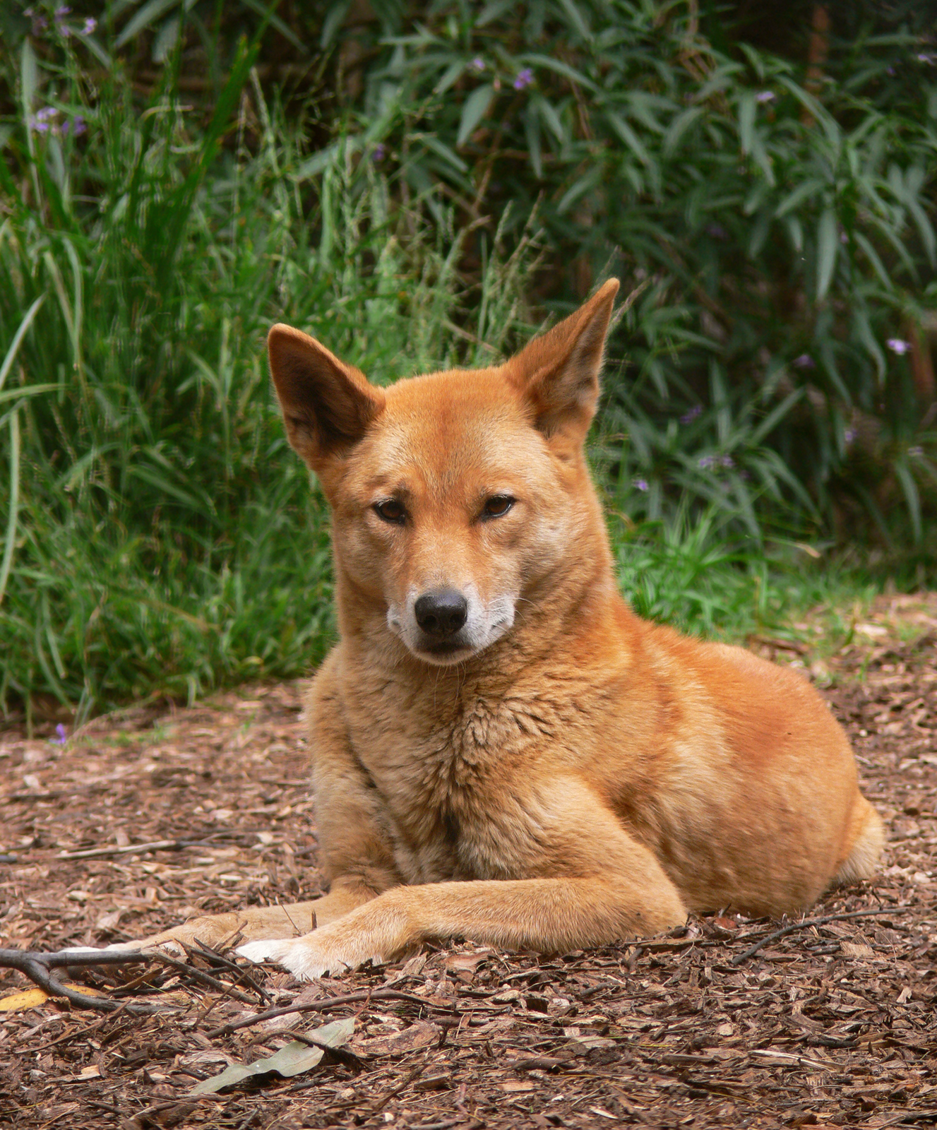 An Australian Dingoe, Canis lupus dingo , taken at a wildlife sanctuary/rescue center in South-eastern Australia.